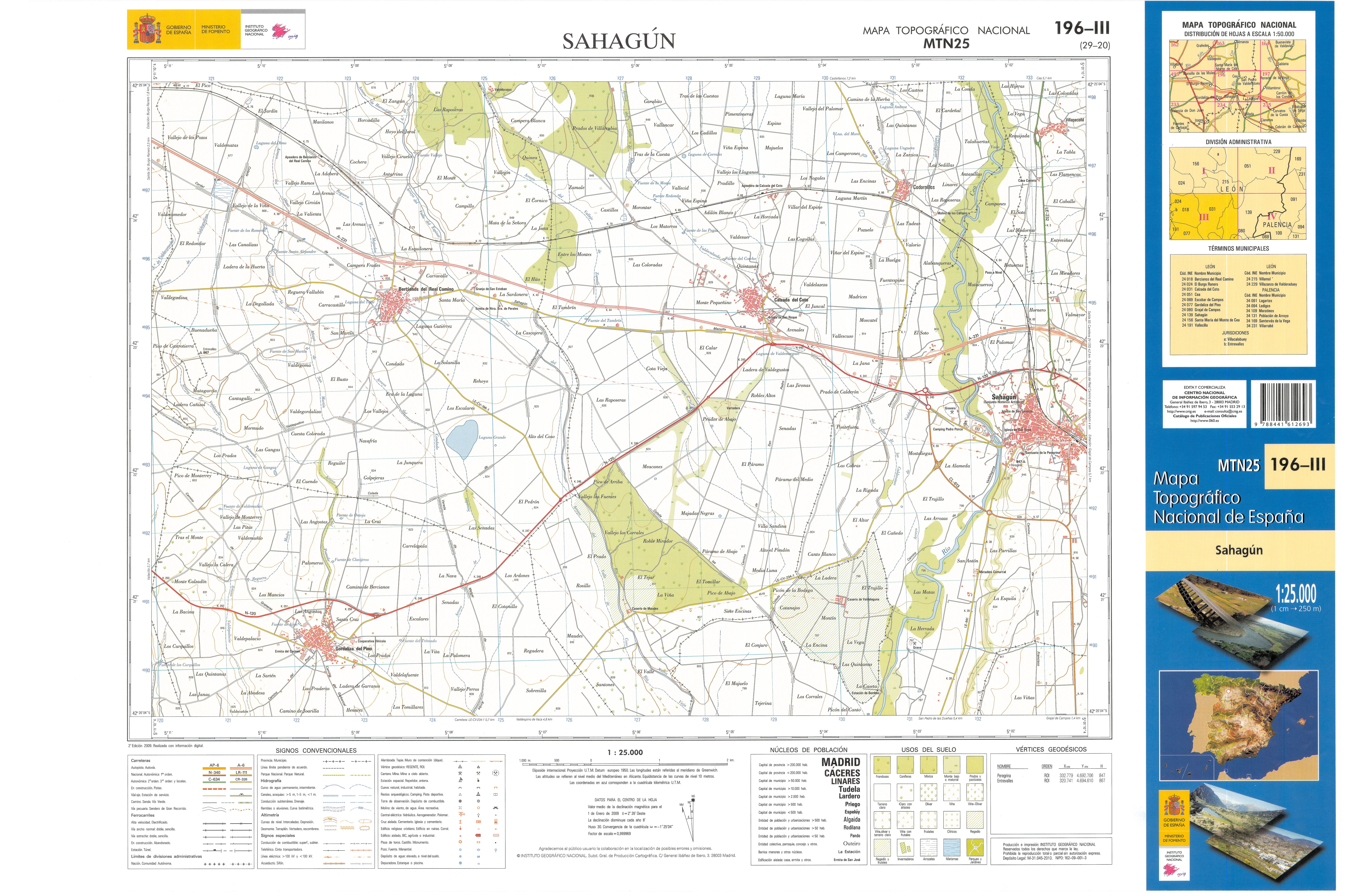 Fragment 0196c3 of the National Topographic Map of Spain in 2009 at a scale of 1:25000 printed and scanned with a resolution of 250 ppi. It shows Sahagun.